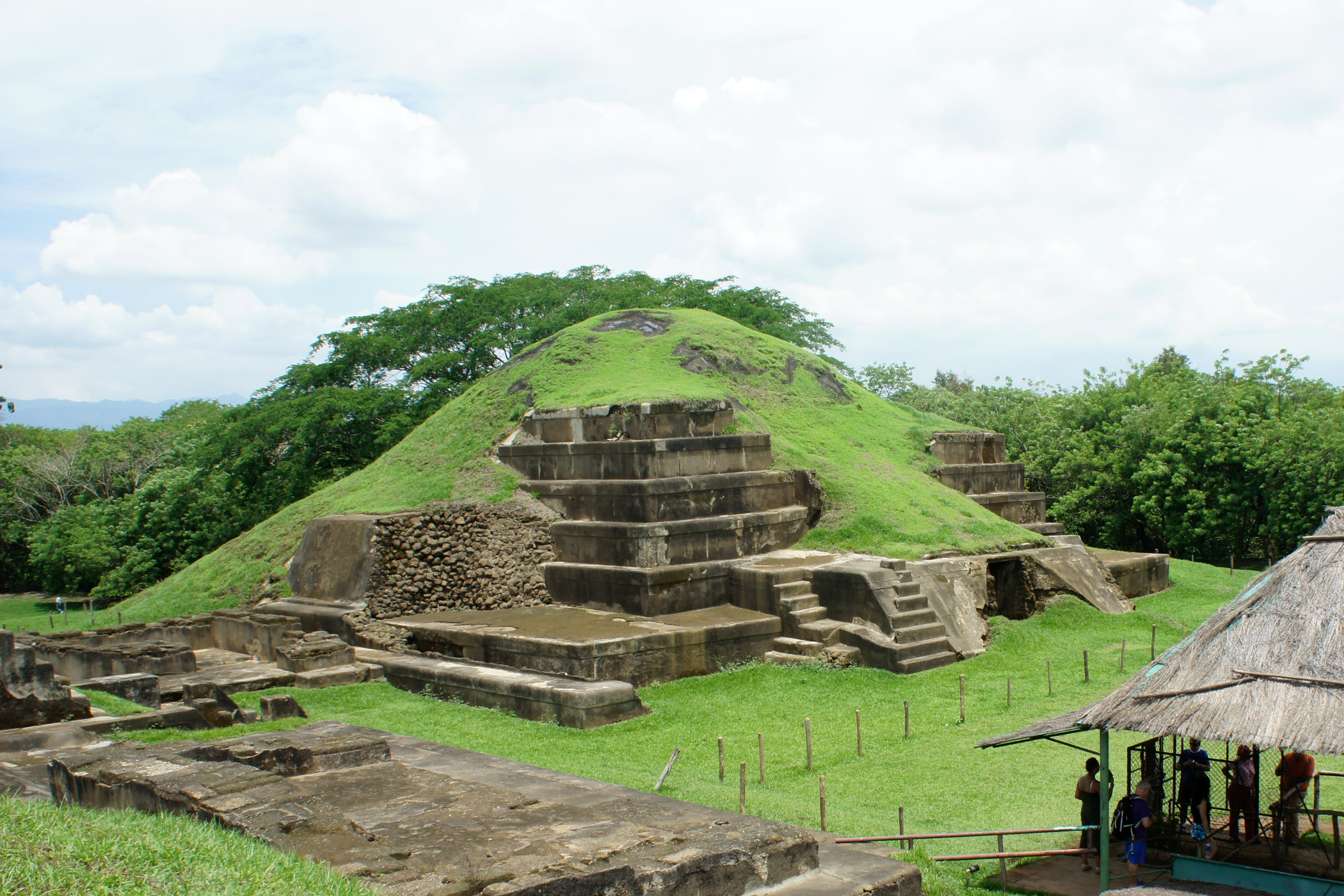 Mayan pyramid at La Acropolis, San Andres, El Salvador (structure 1)